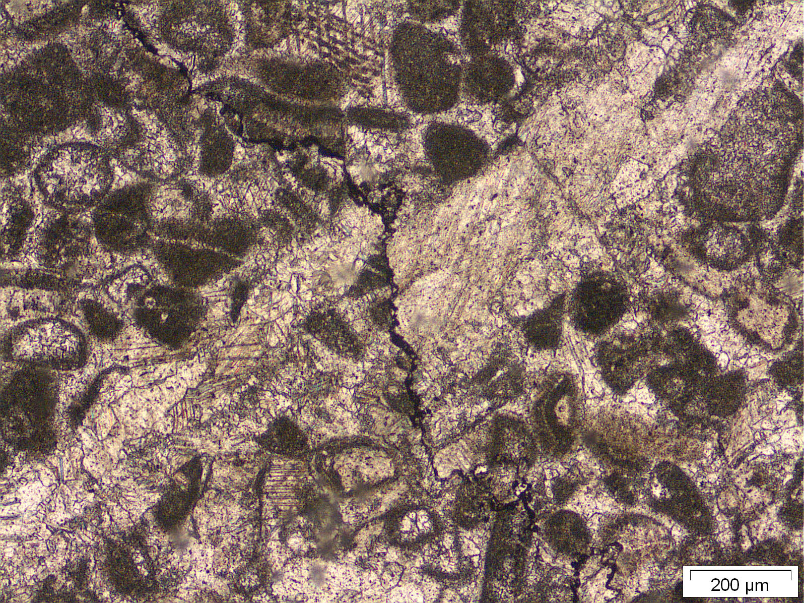 Irregular stylolite plane in a thin section of a packstone (clasts are microorganisms). A calcite vein runs from top right to lower left in the image and is offset by the stylolite. Normal polarized light; magnification 4x; scale see scalebar. "Oehrlikalk formation of the Axen nappe, Wellenberg, Switzerland.